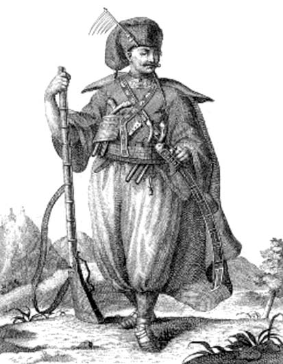 Baron Franz von der Trenck, 1711-1749 (Uncle of the prussian Baron Friedrich von der Trenck 1726-1794)